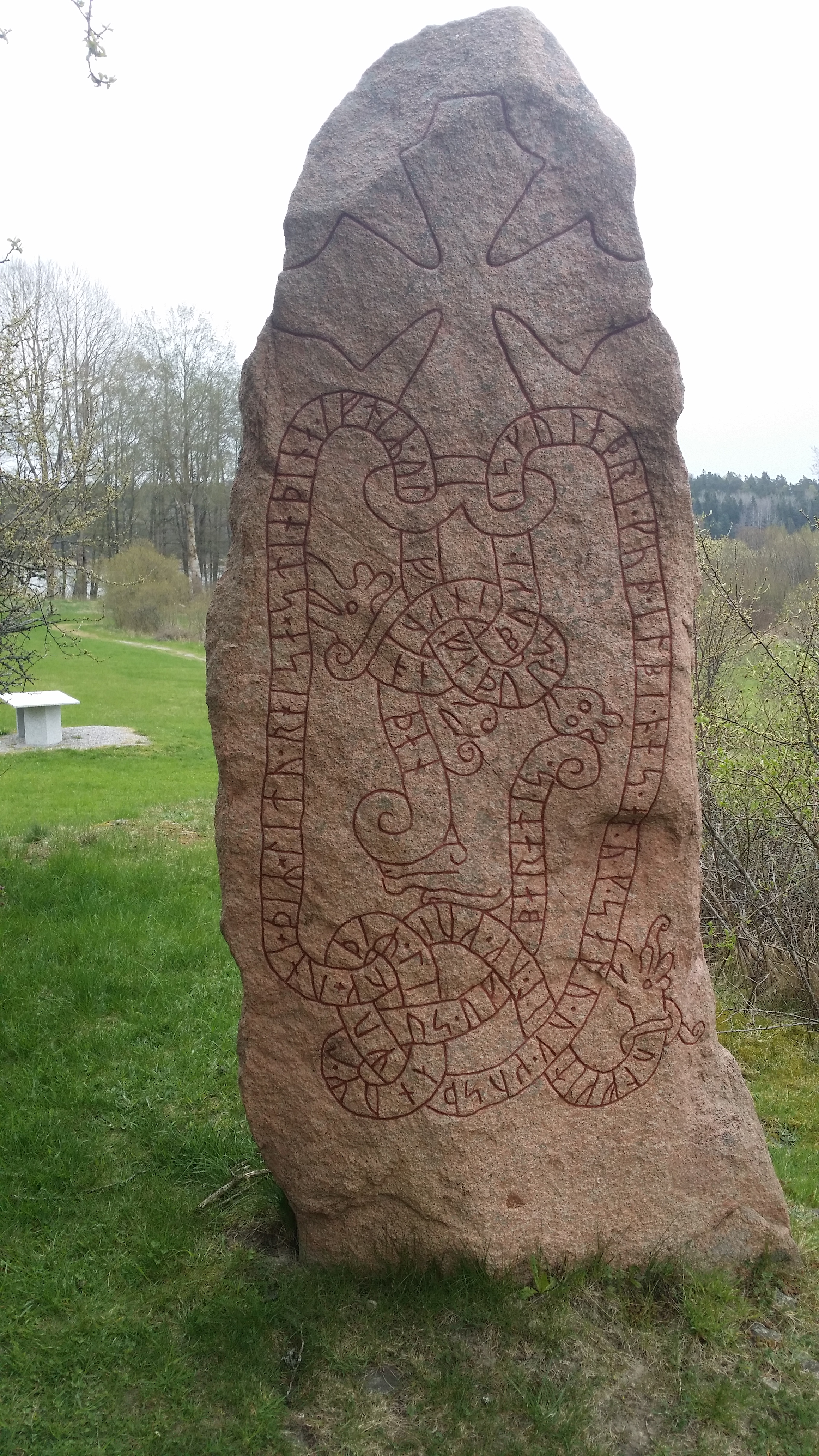 Runestone U160 in Risbyle. Made of granite and part of "Runriket".